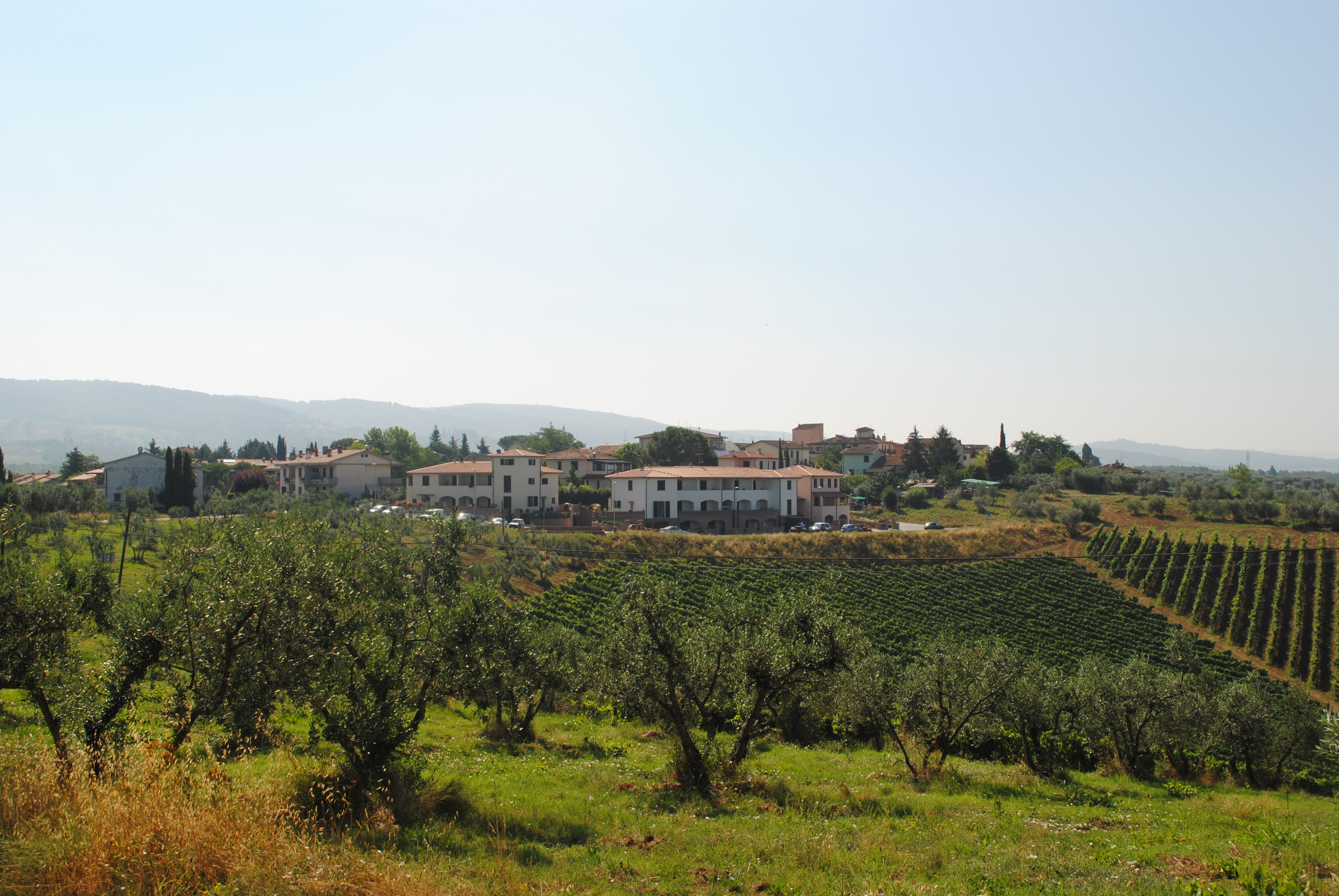 View of Montefiridolfi (Italy)